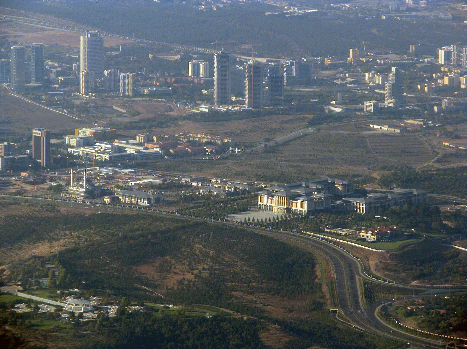 Presidential Complex, Ankara